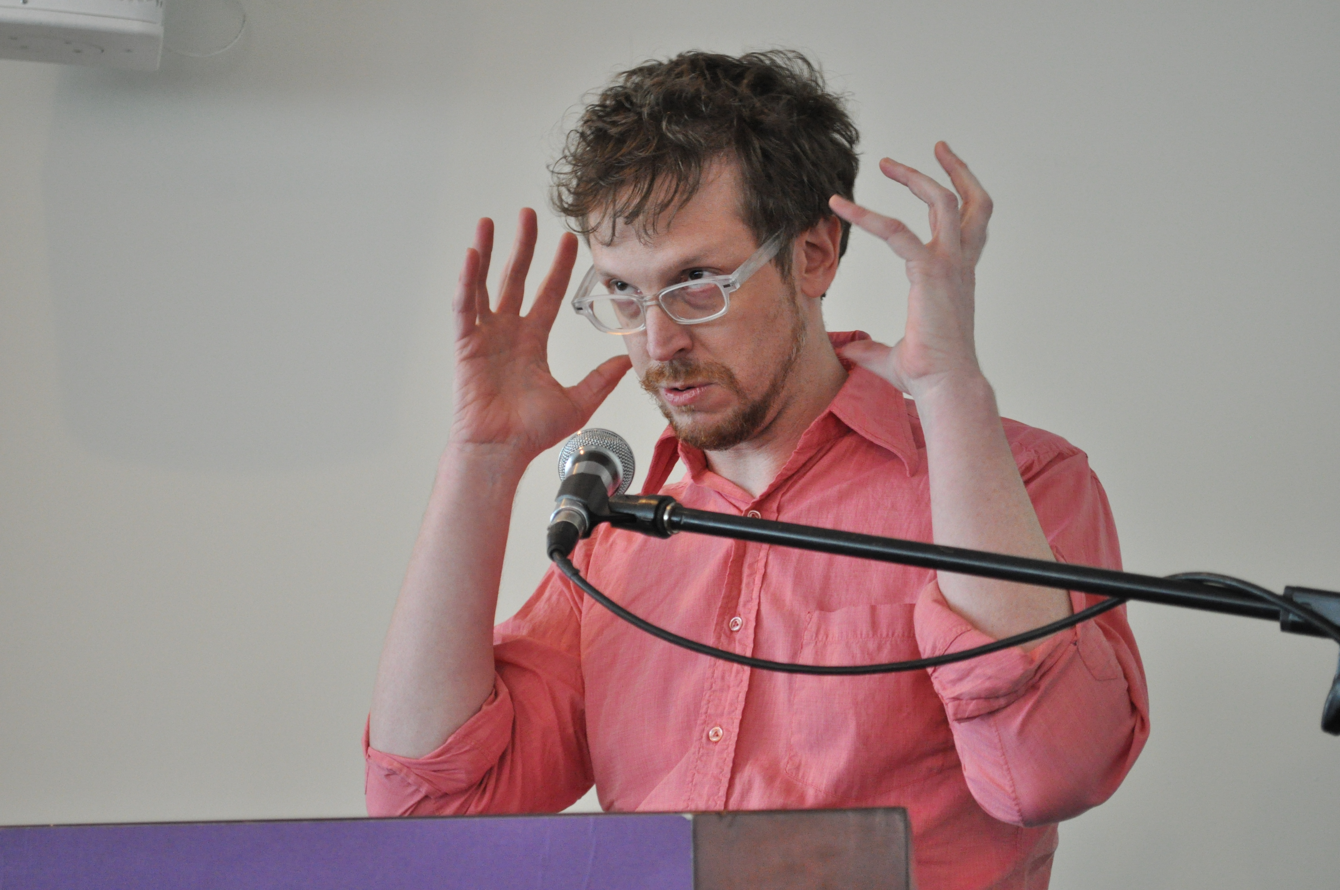 Gustavus Stadler presenting at the 2012 Pop Conference, at NYU. Stadler teaches English at Haverford College & is co-editor-in-chief of the Journal of Popular Music Studies.